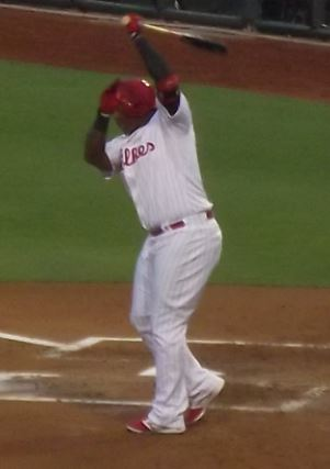 Marlon Byrd warms up before an at-bat in a game on August 22, 2014